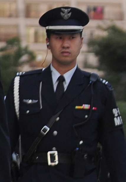 A Captain of the Air Police Group, Japan Air Self-Defense Force (JASDF)